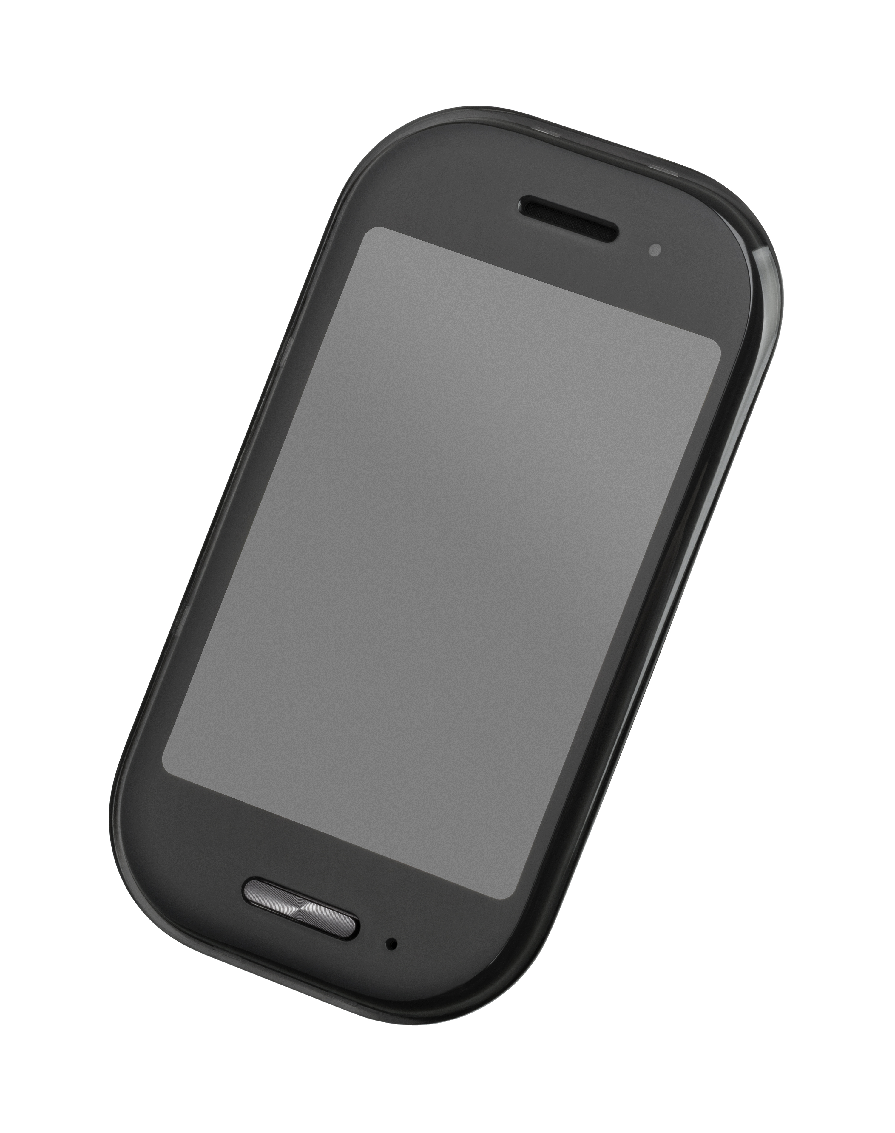 The Microsoft Kin Two (shown closed), a 2010 cellphone that was manufactured by Sharp and sold through Verizon Wireless. The phone used a special social-media-based OS and is notable for being a critical and commercial failure, being discontinued less than two months after it launched.